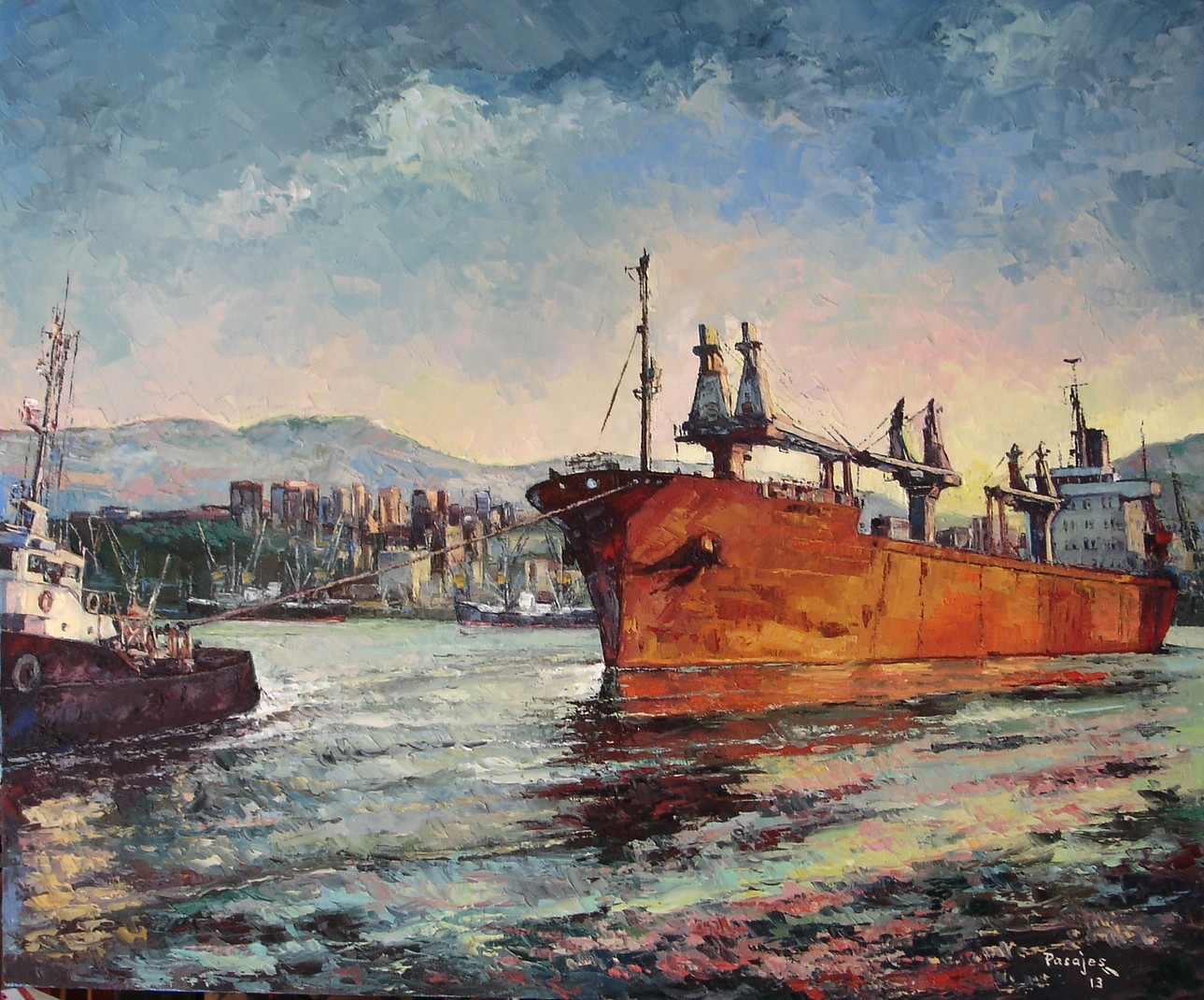 Oil on canvas paint by Pasajes.